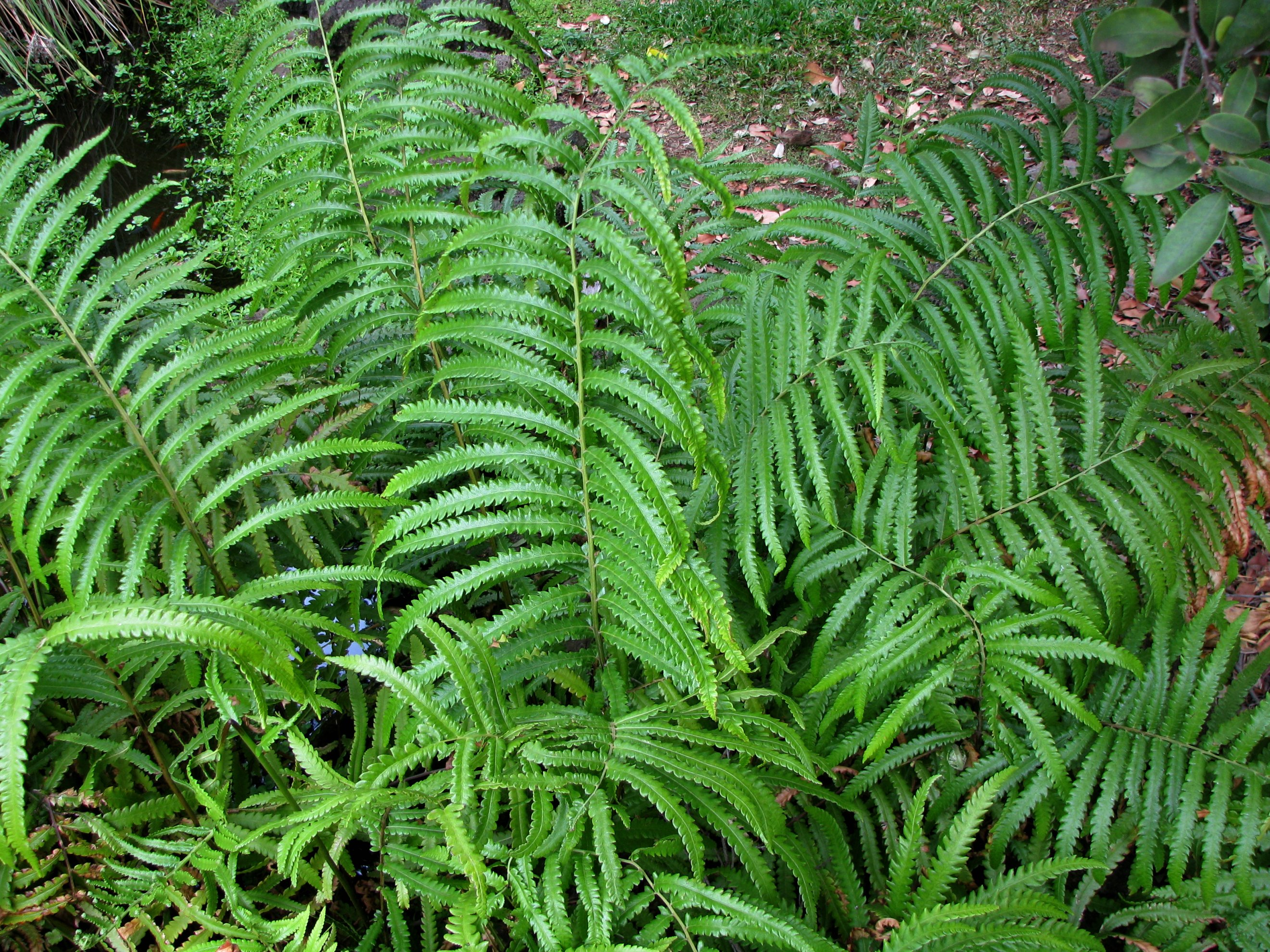 Neke or Willdenow's maiden fern Thelypteridaceae Indigenous to the Hawaiian Islands Oʻahu (Cultivated) NPH00009